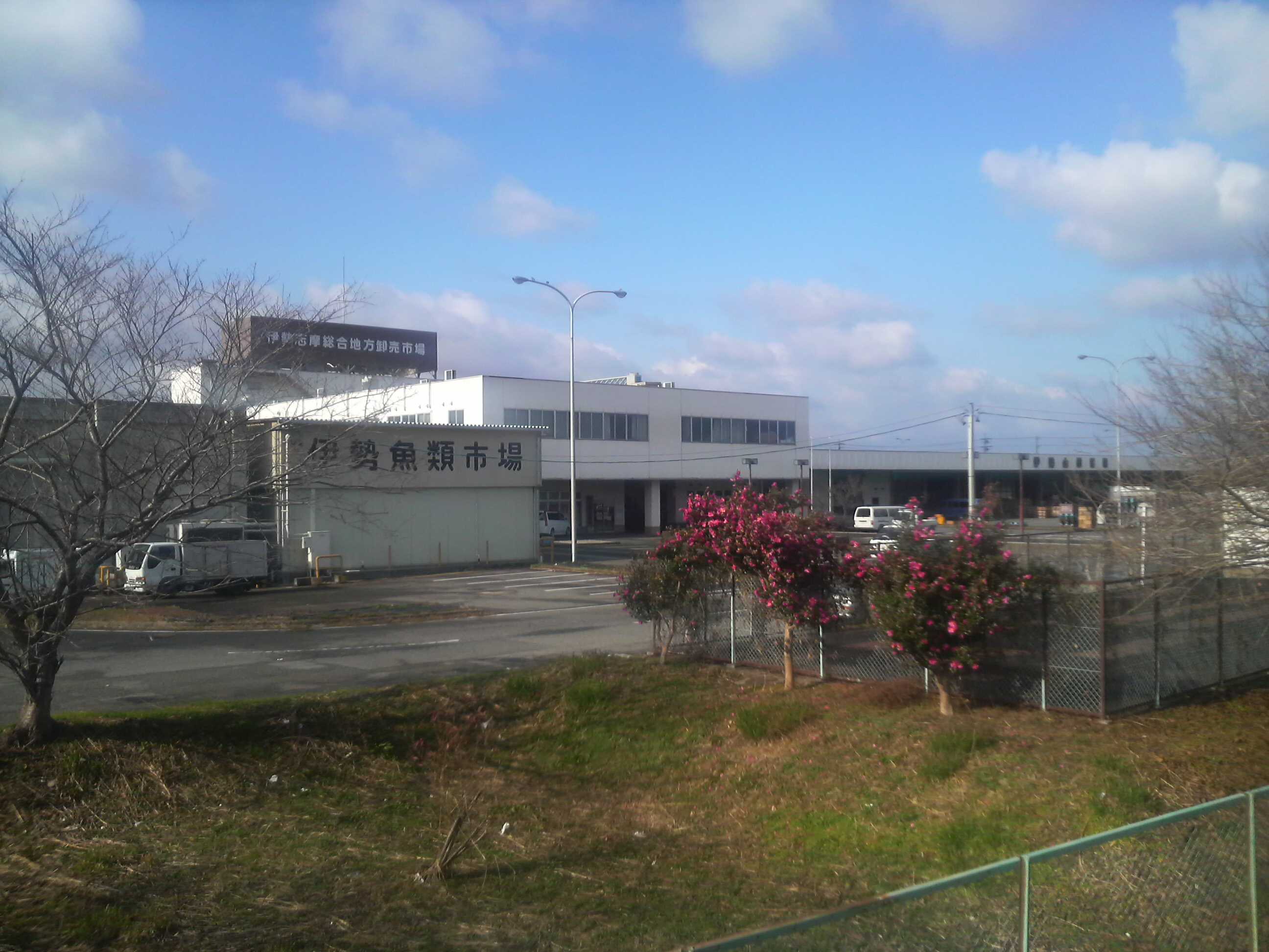 Ise-Shima Wholesale Market in Ise,Mie,Japan